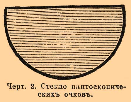 Illustration from Brockhaus and Efron Encyclopedic Dictionary (1890—1907)